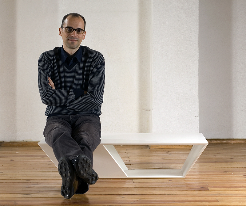 Portuguese designer Filipe Alarcao sitting on one of his creations, the Gem table, produced in Portugal and distributed worldwide by TemaHome